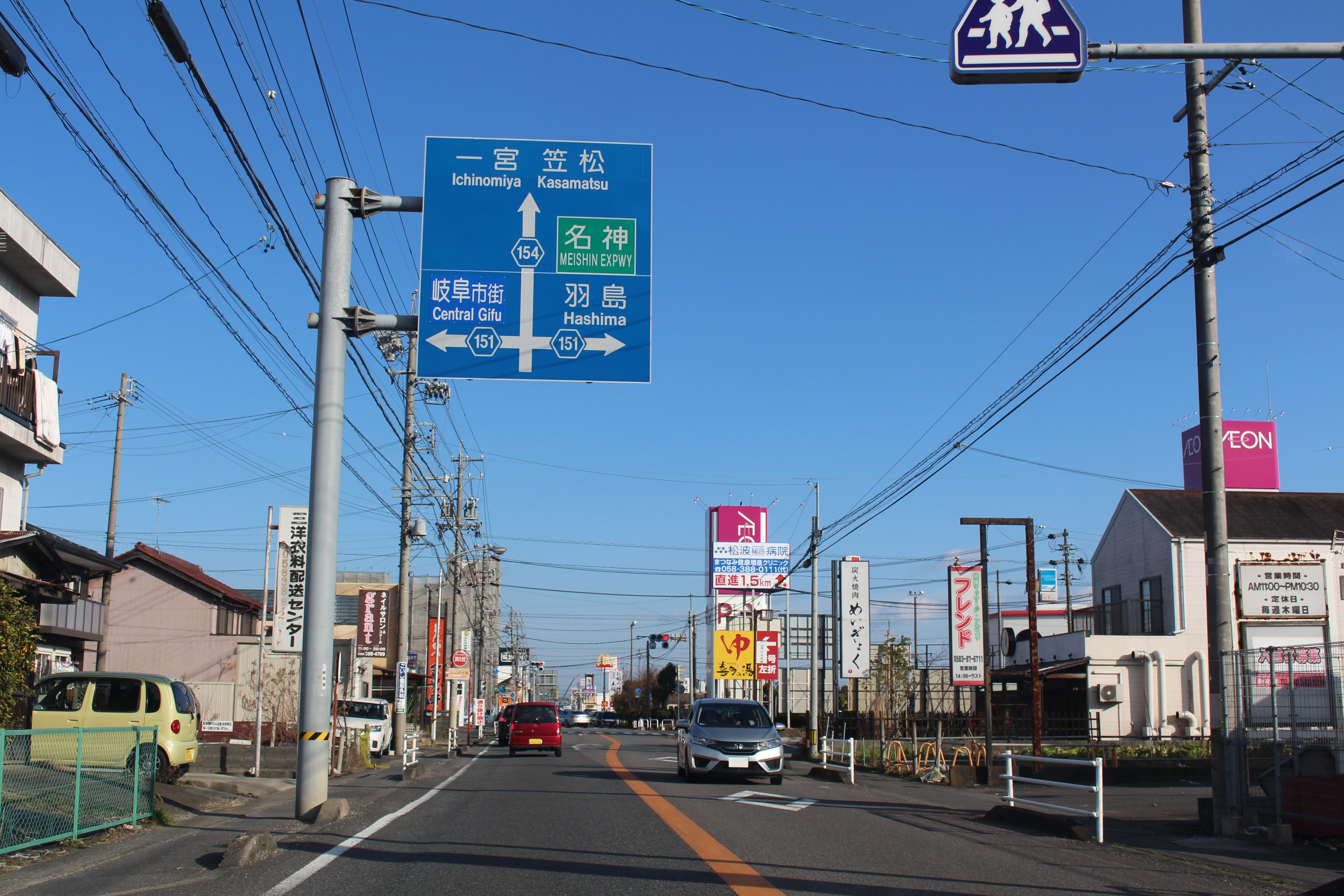 Gifu Prefectural Road Route 154, Hongo, Kasamatsu, Gifu prefecture, Japan.